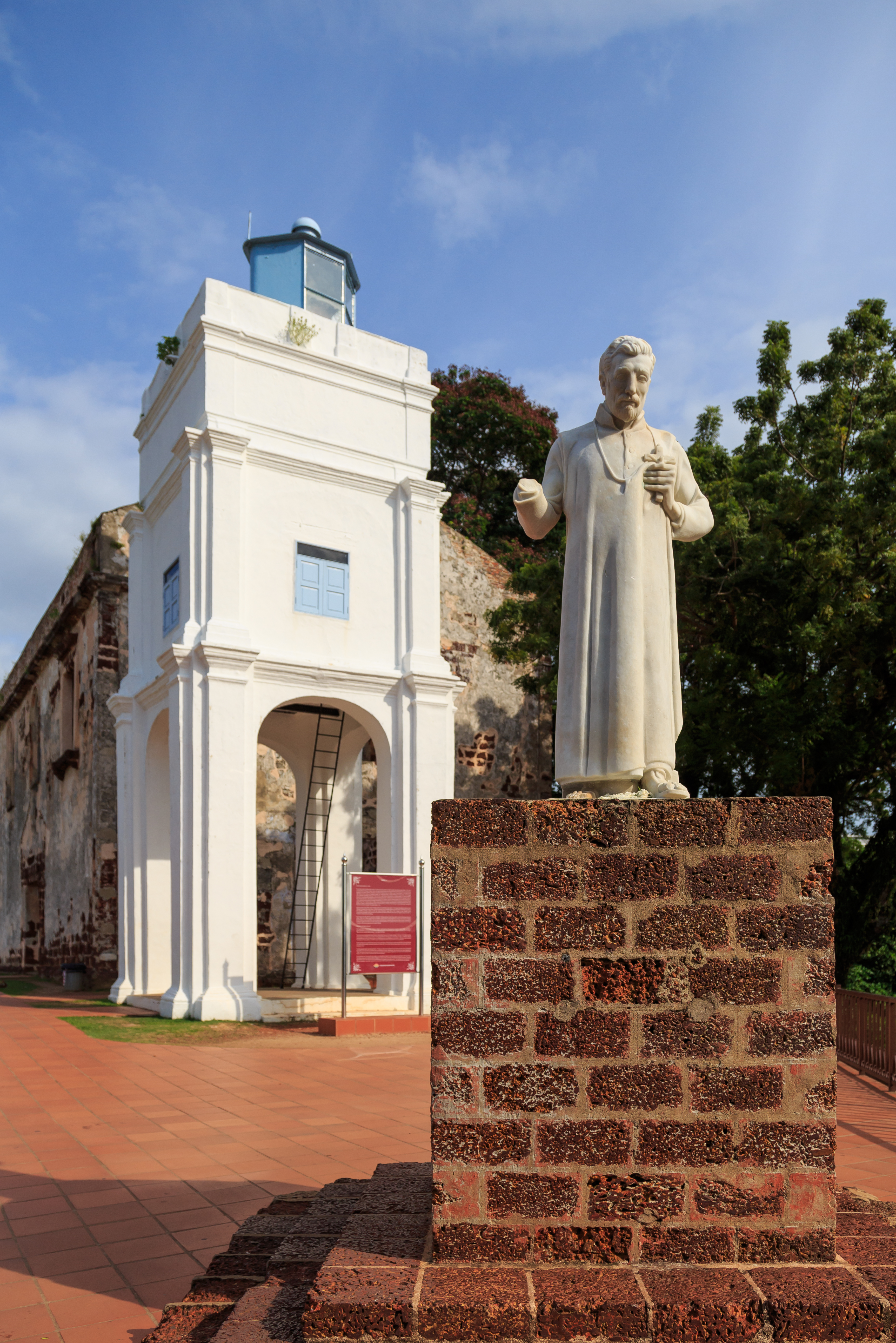 Malacca, Malaysia: The statue of Francis Xavier in front of St Paul Church, Melaka